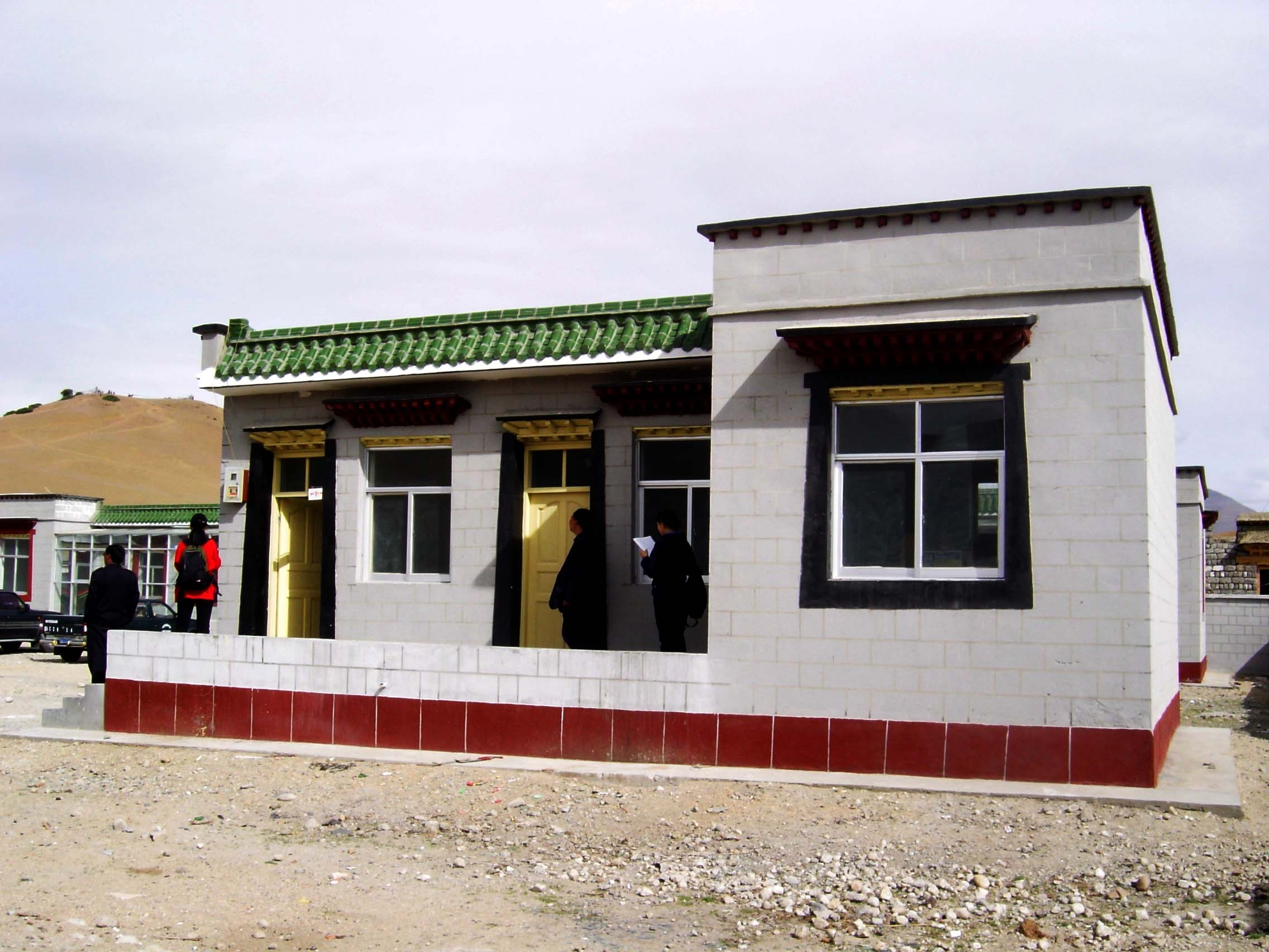 Ni Zhong Township Clinic, Tibet, 2003. Photo: AusAID